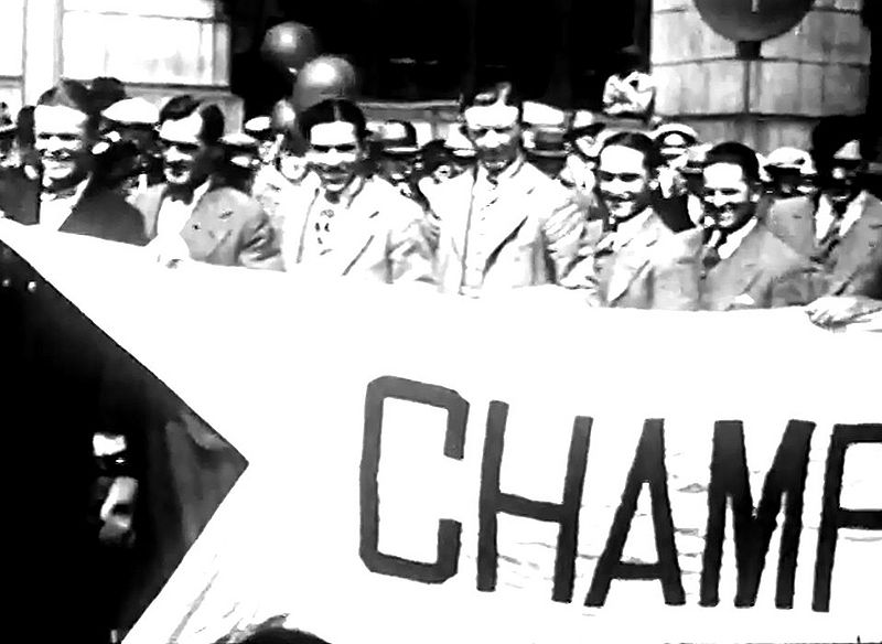 1927 Oakland Oaks champions